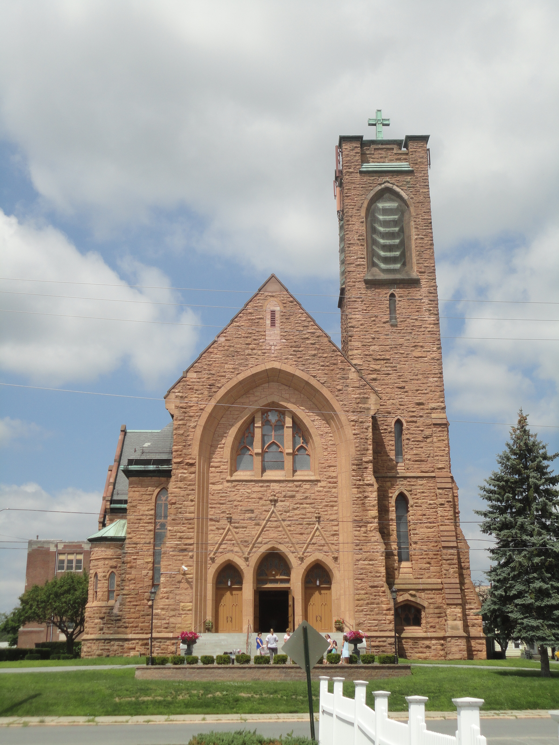 Exterior